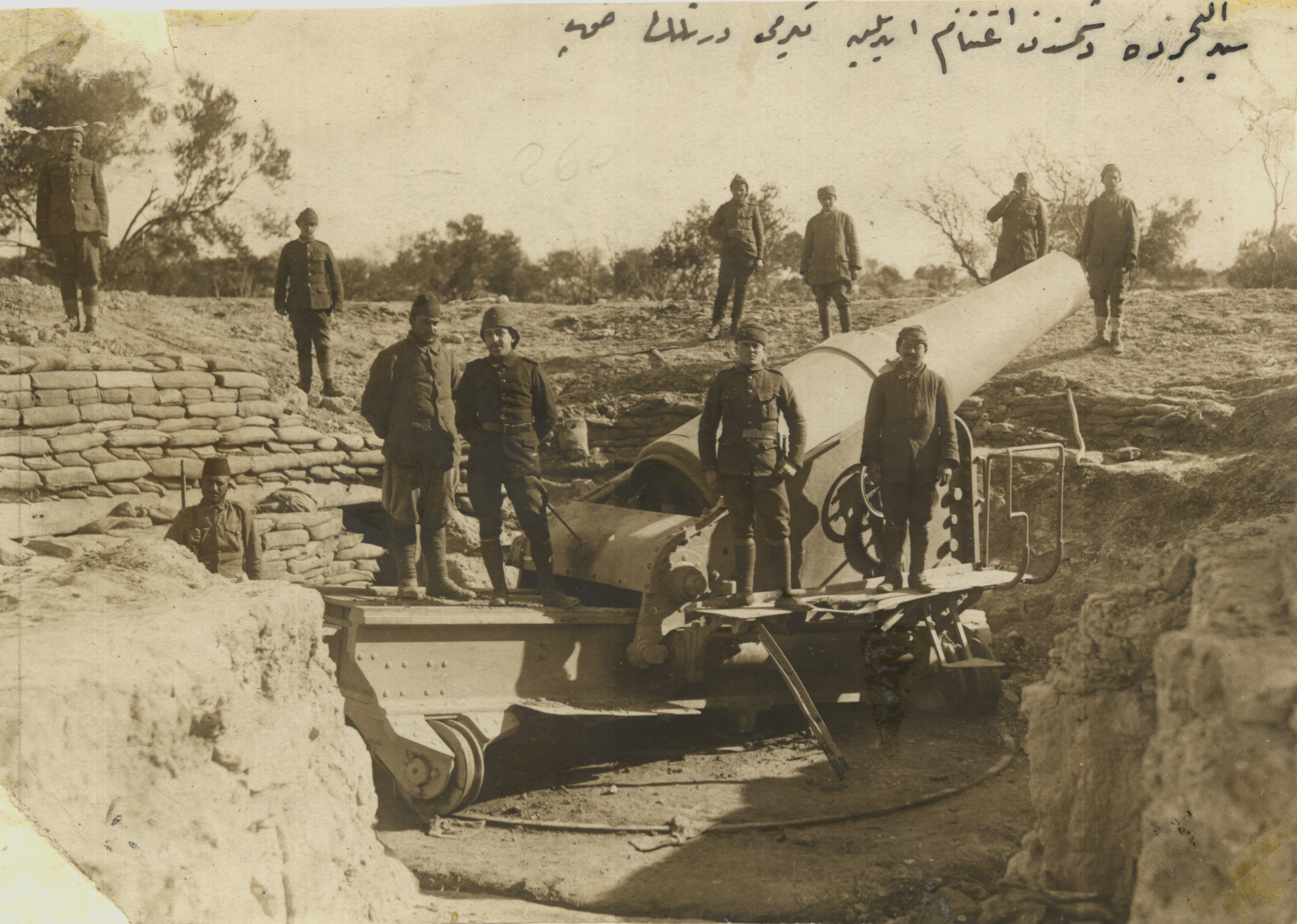 French-made 24 cm M1876 artillery piece captured by Ottoman forces